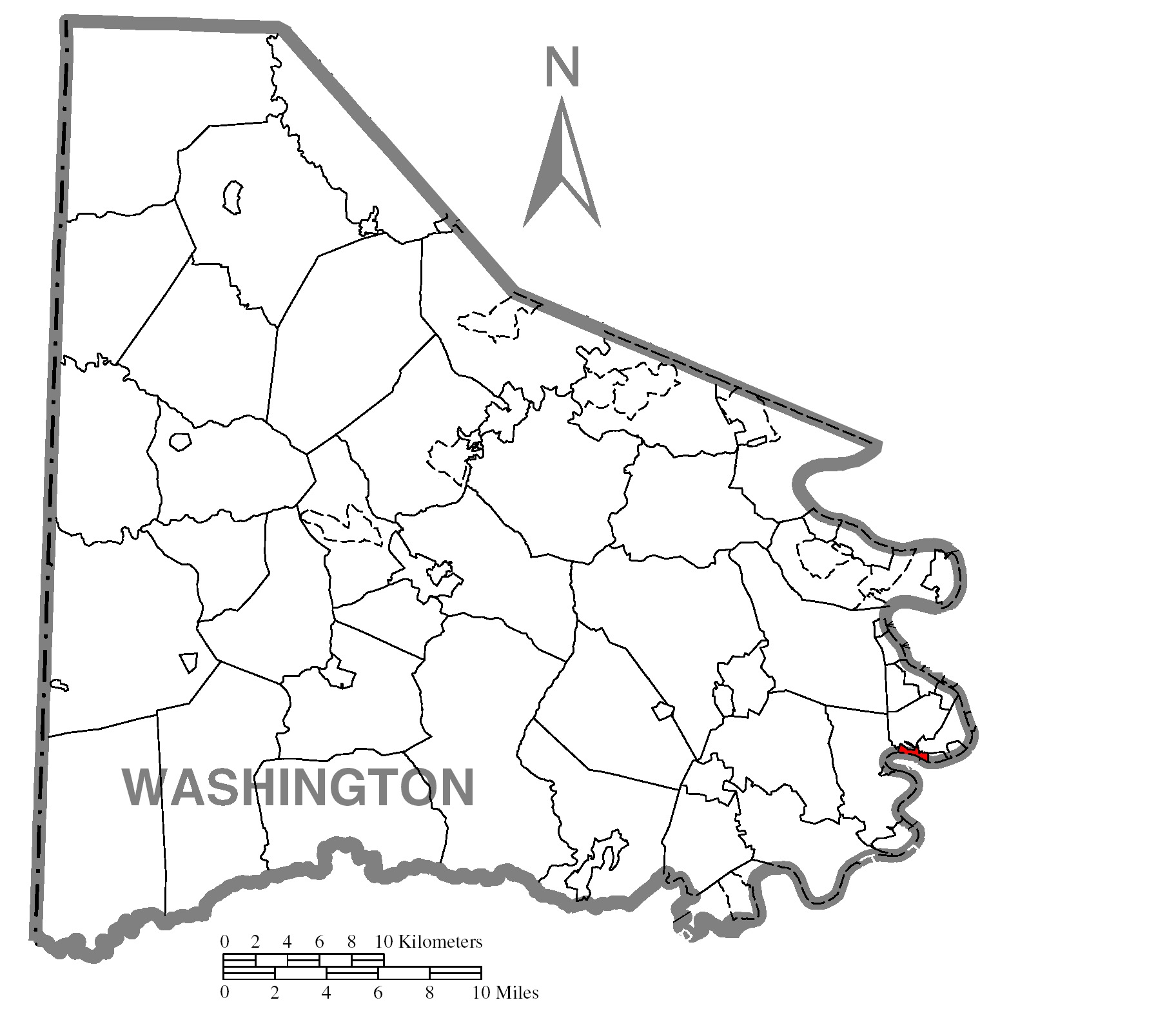 Map of Washington County higlighting Elco.